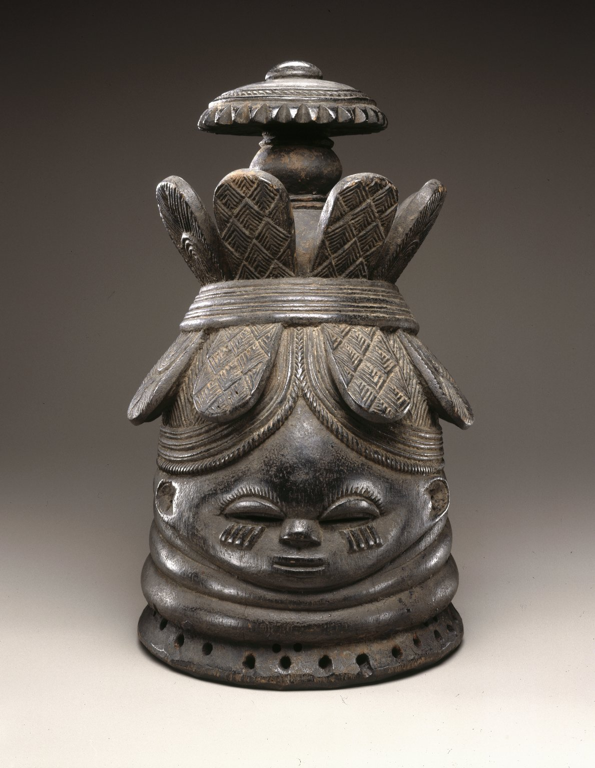 Wooden helmet mask of a human head. Its neck is enlarged with rolls of fat. There are holes around the base for attachments. The eyes are coffee bean in shape with slits through their centers. Four verticle scarification marks appear under each eye. The elaborate headress consists of eight flap-like forms secured at the center with a band.The headdress is topped by a mushroom-like ornament with frets and other decorative work. Condition: A vertical crack runs from base of mask to head band at back center and includes a triangular 1 3/4 hole below band.